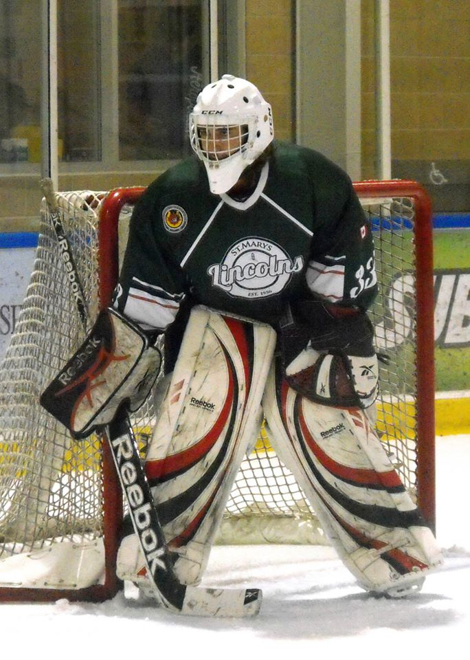 This photo was taken by Devan Mighton during the 2014-15 GOJHL season.